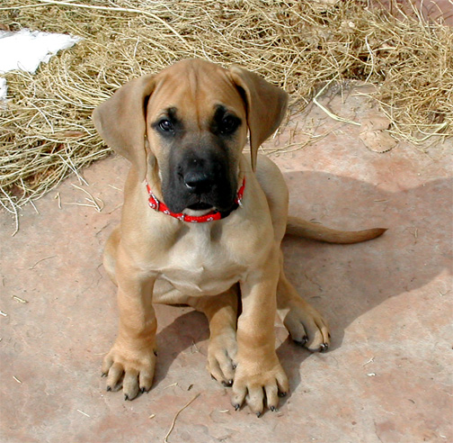 Oola - 9 weeks: Oola, an eight week old Great Dane, at her new home in Boulder, Colorado.